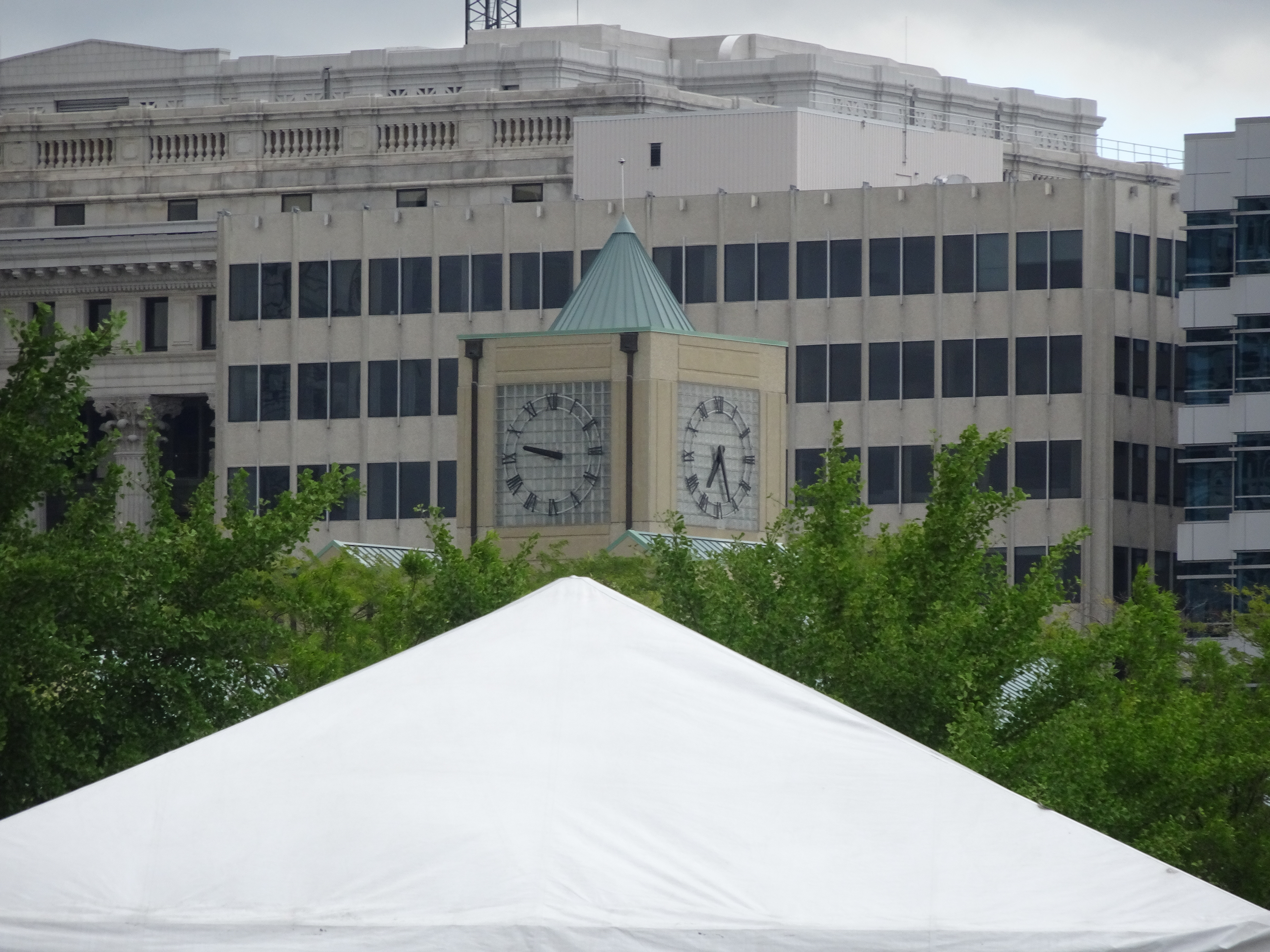 Milwaukee Transit Center Clock Tower